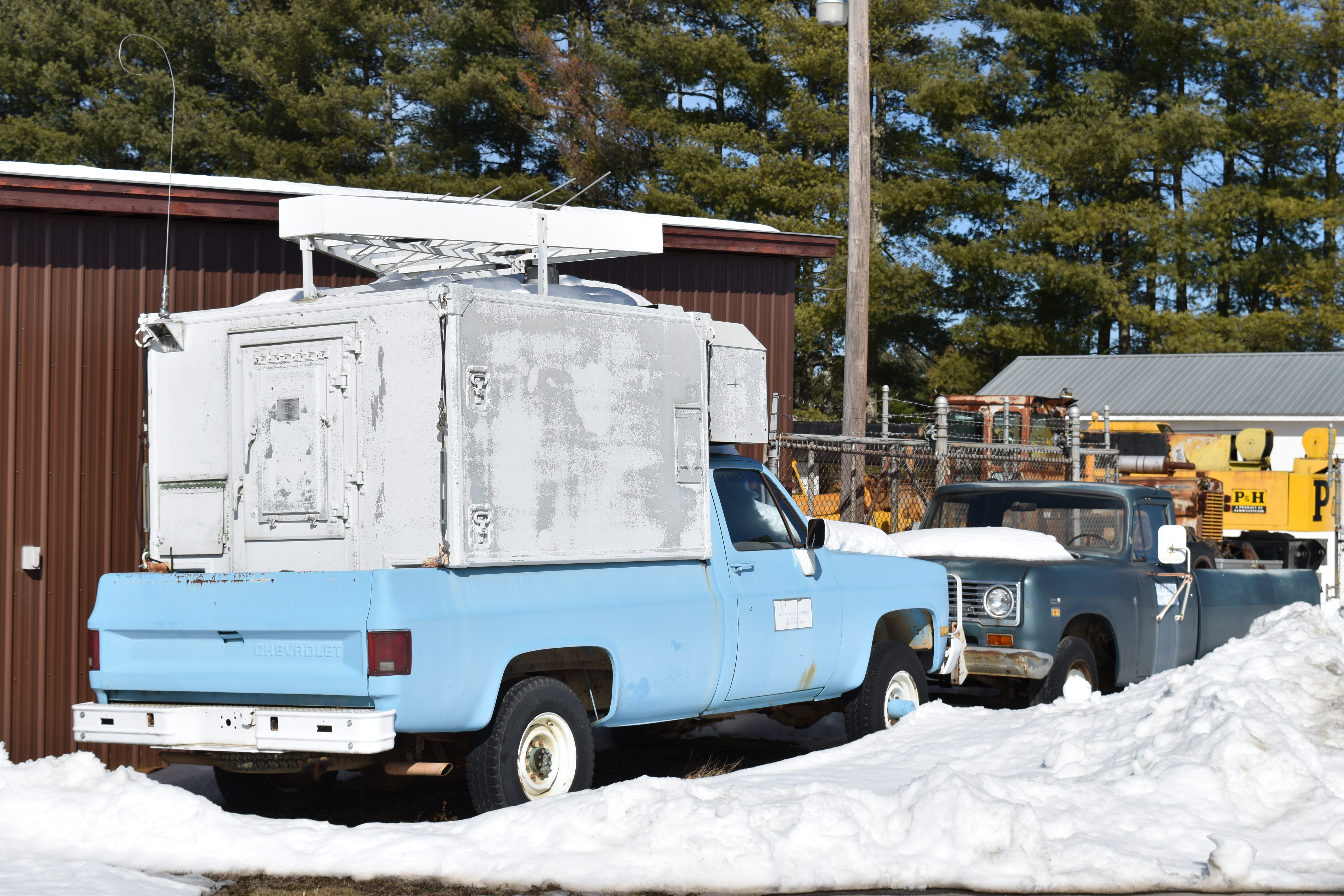 NRAO old patrol truck used to identify source of radio interference